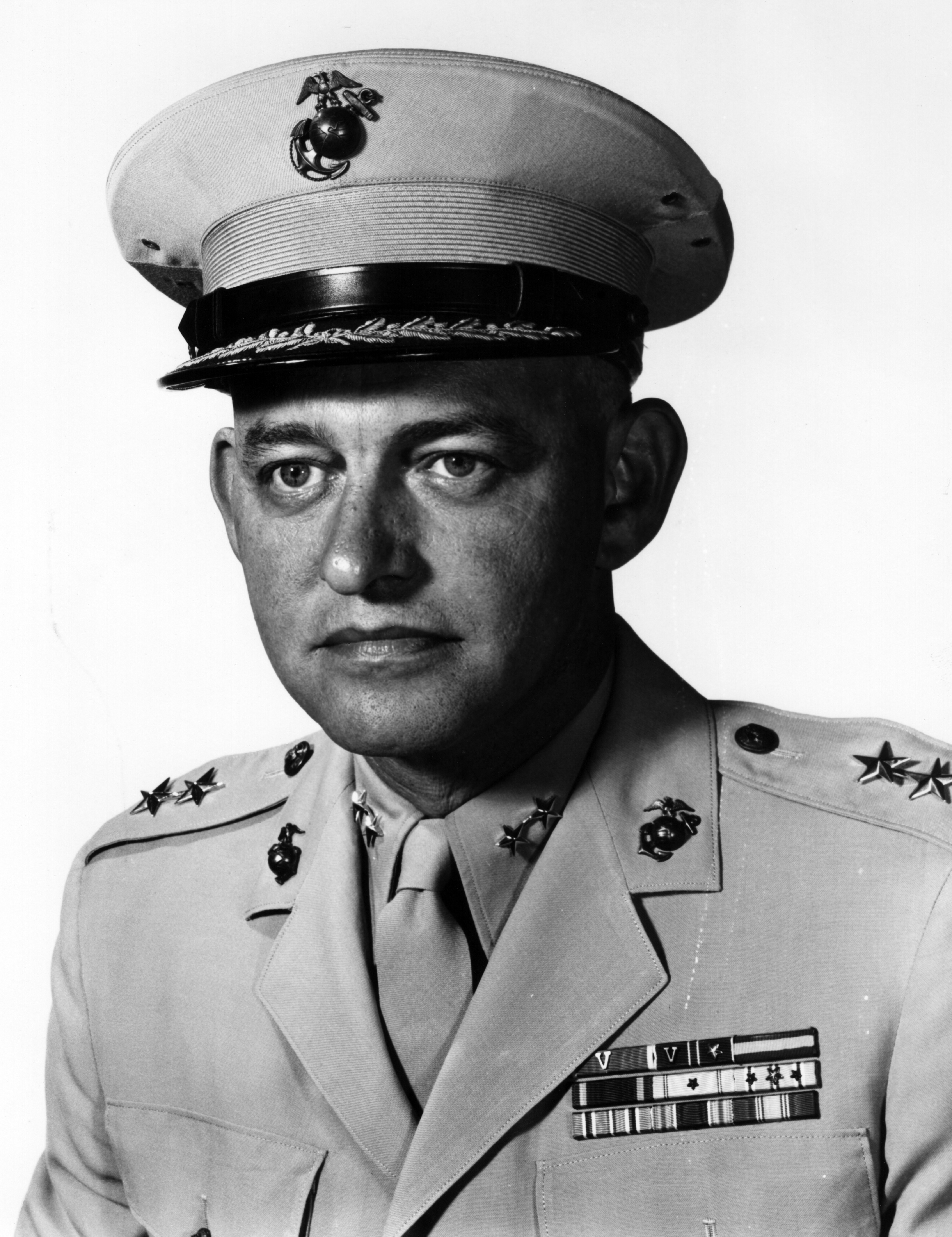 William Taro Fairbourn (June 28, 1914 - February 21, 1987) was a decorated officer of the United States Marine Corps with the rank of Major General. He is most noted as Commanding general of 5th Marine Expeditionary Brigade during Cuban Missile Crisis and later served as Commanding general of 1st Marine Division. Fairbourn was later known as Nuclear arms race activist.